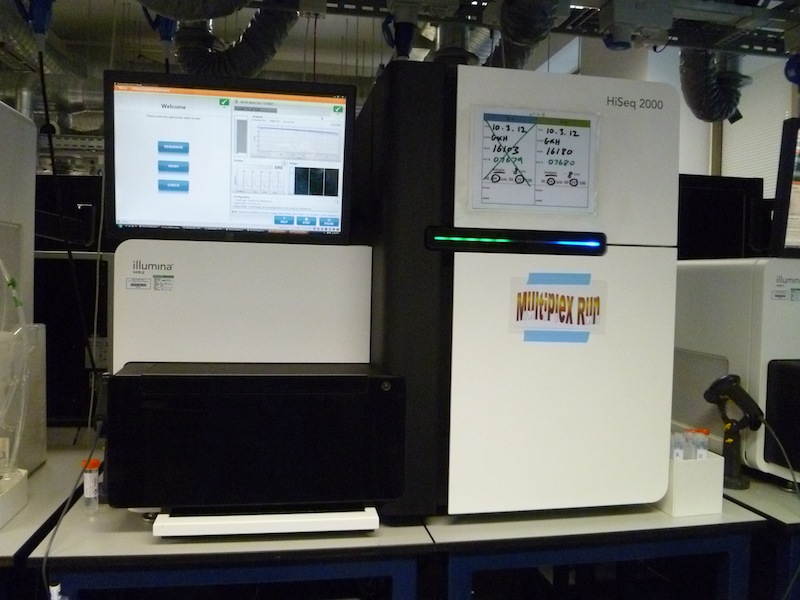 HiSeq2000